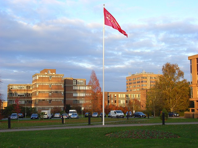 This is the university's main Whiteknights campus. The principal building to be seen is the HumSS building, with a sliver of University admin building visible to the right.